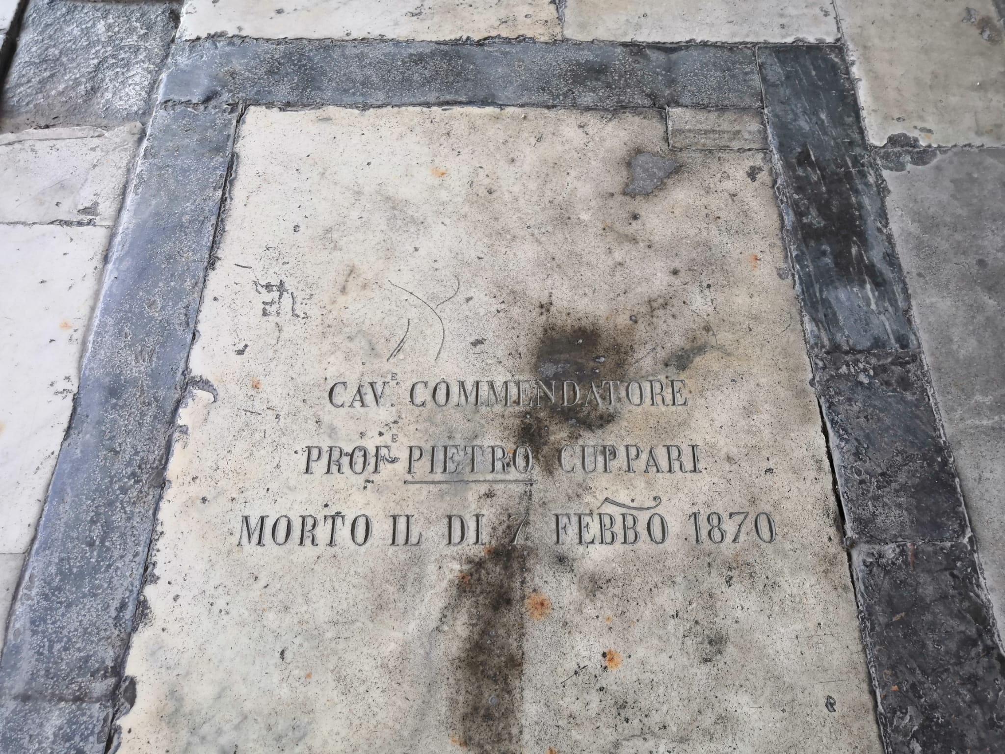 Tomb of Prof. Pietro Cuppari in the Campo Santo of Pisa